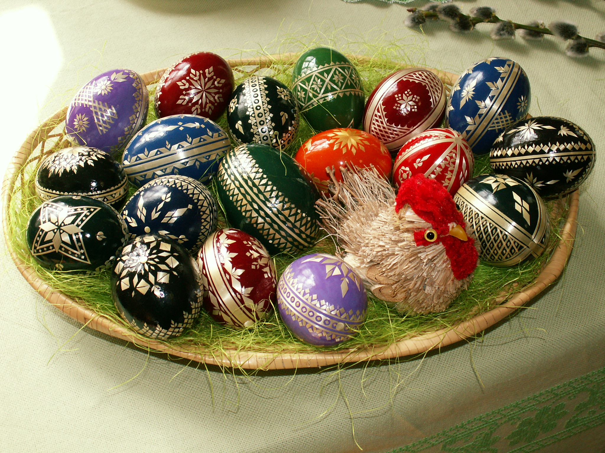 Hanácké kraslice, a traditional way of decorating Easter eggs with straw in the region of Haná, the Czech Republic. The photograph was taken on an exhibition of egg decorating in Bělkovice-Lašťany in the Czech Republic.